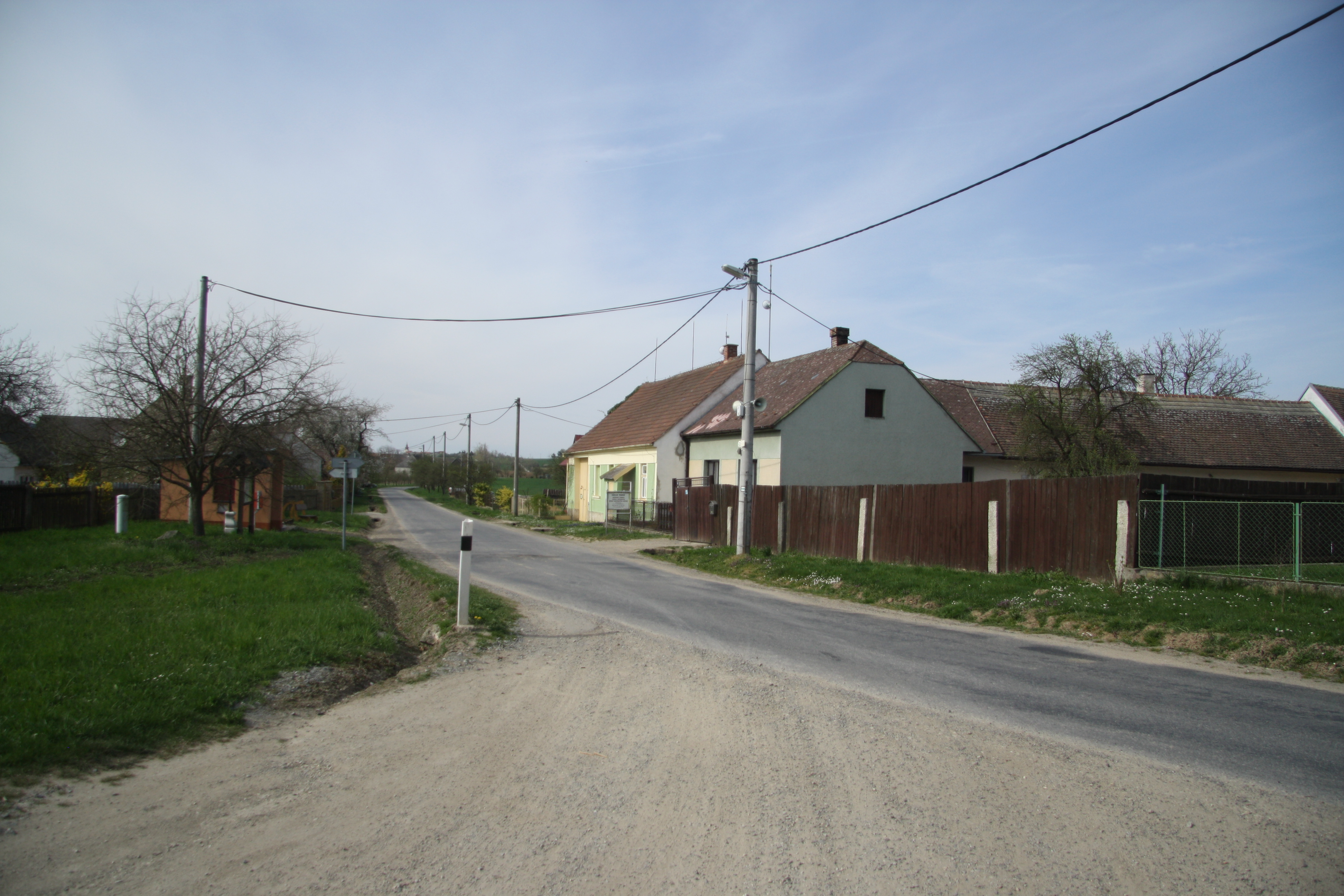 Center of Horní Lažany, Lesonice, Třebíč District.